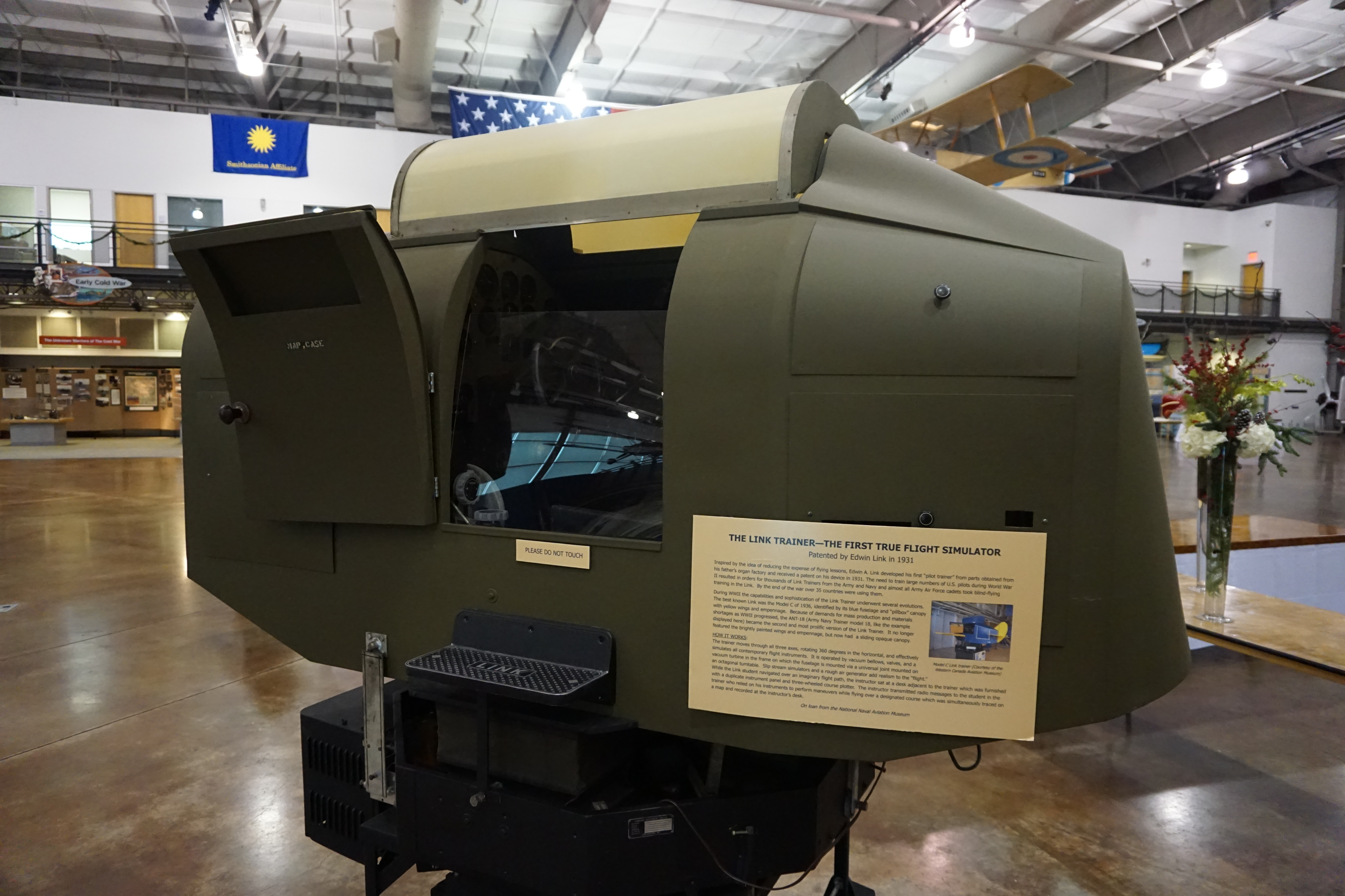 A Link Trainer on display at the Frontiers of Flight Museum at Dallas Love Field in Dallas, Texas (United States).